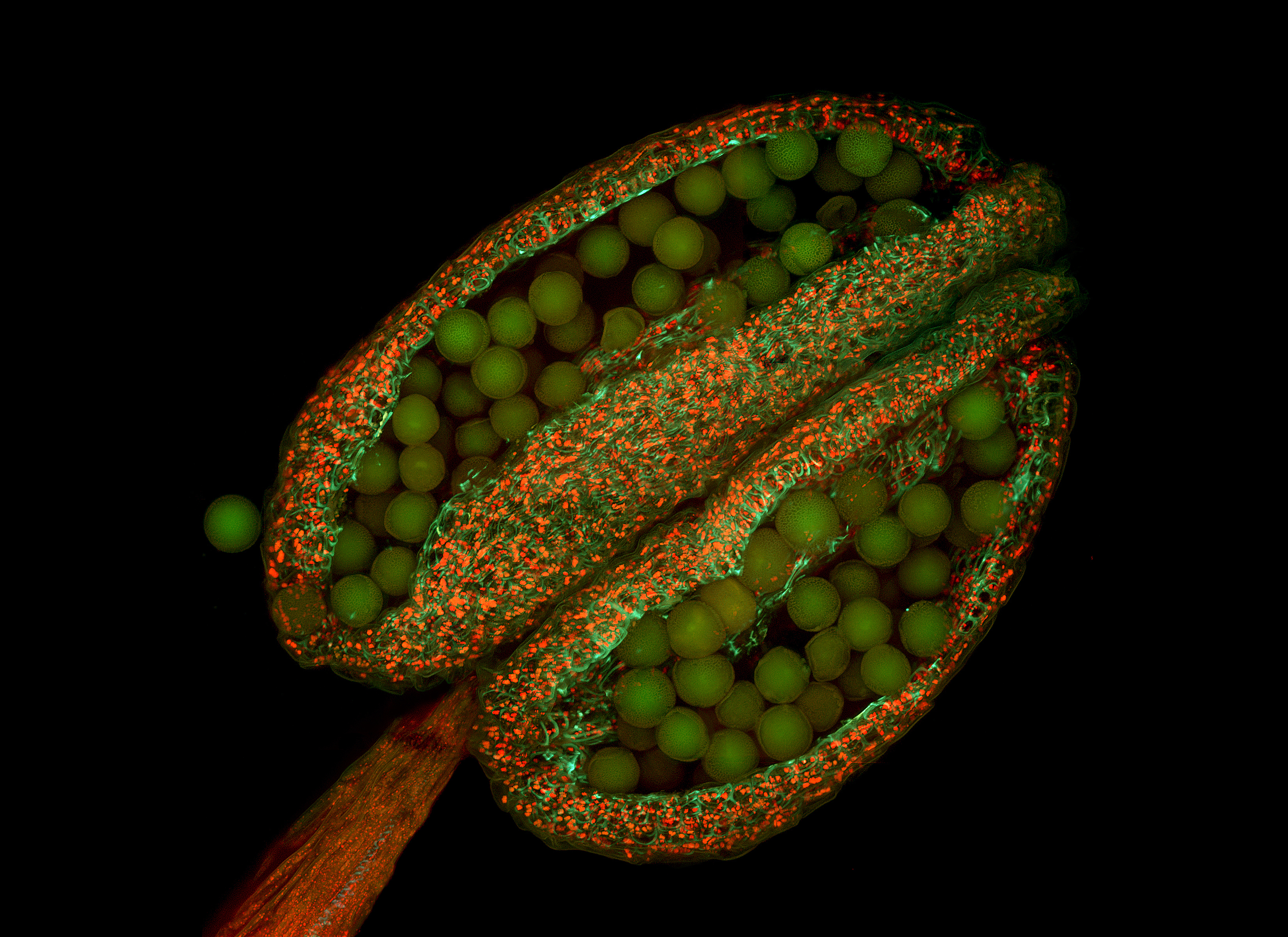 Anther of thale cress (Arabidopsis thaliana), fluorescence micrograph.II place in Estonian Science Photo Competition 2011.